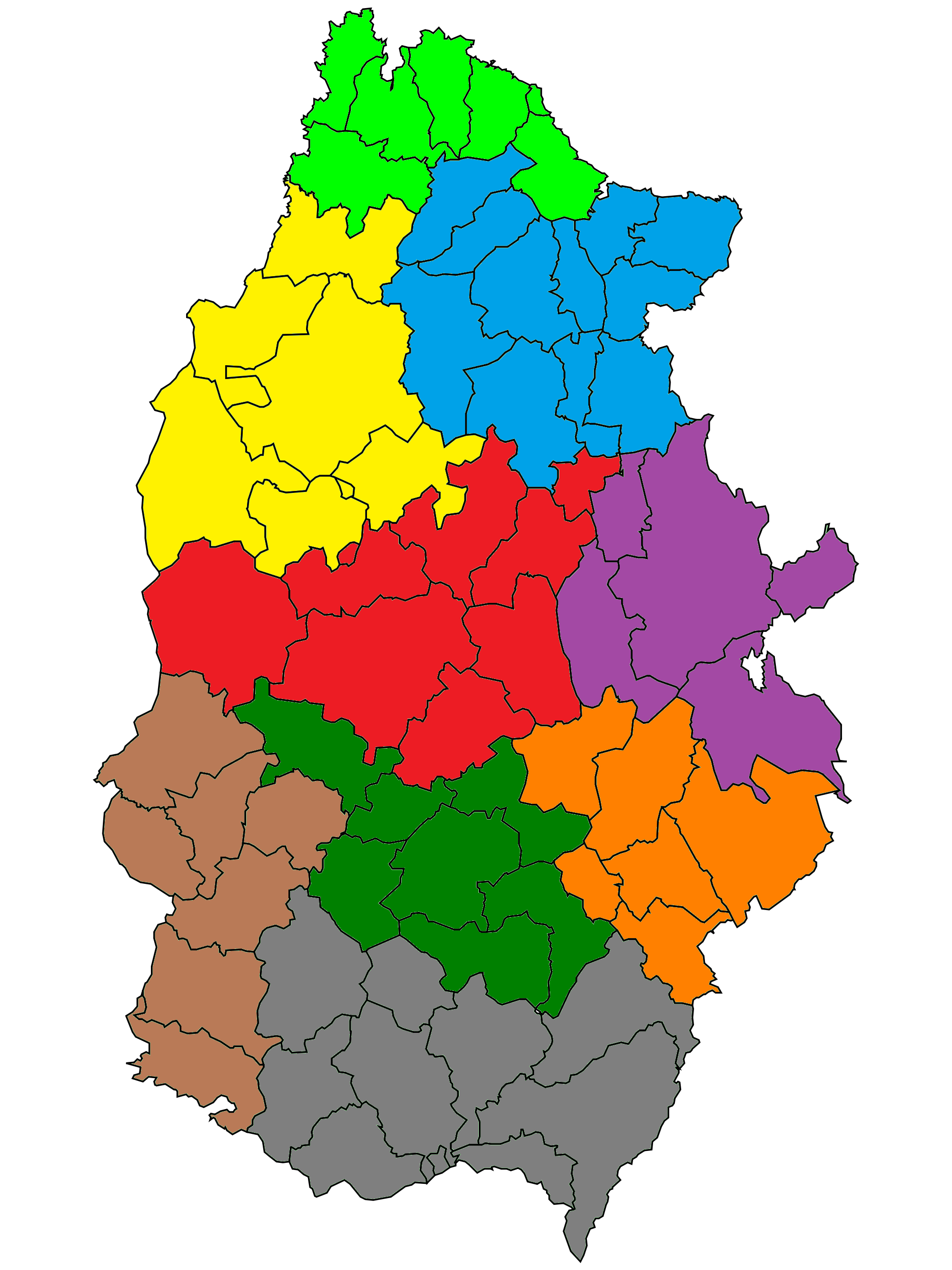 Law parties of Lugo